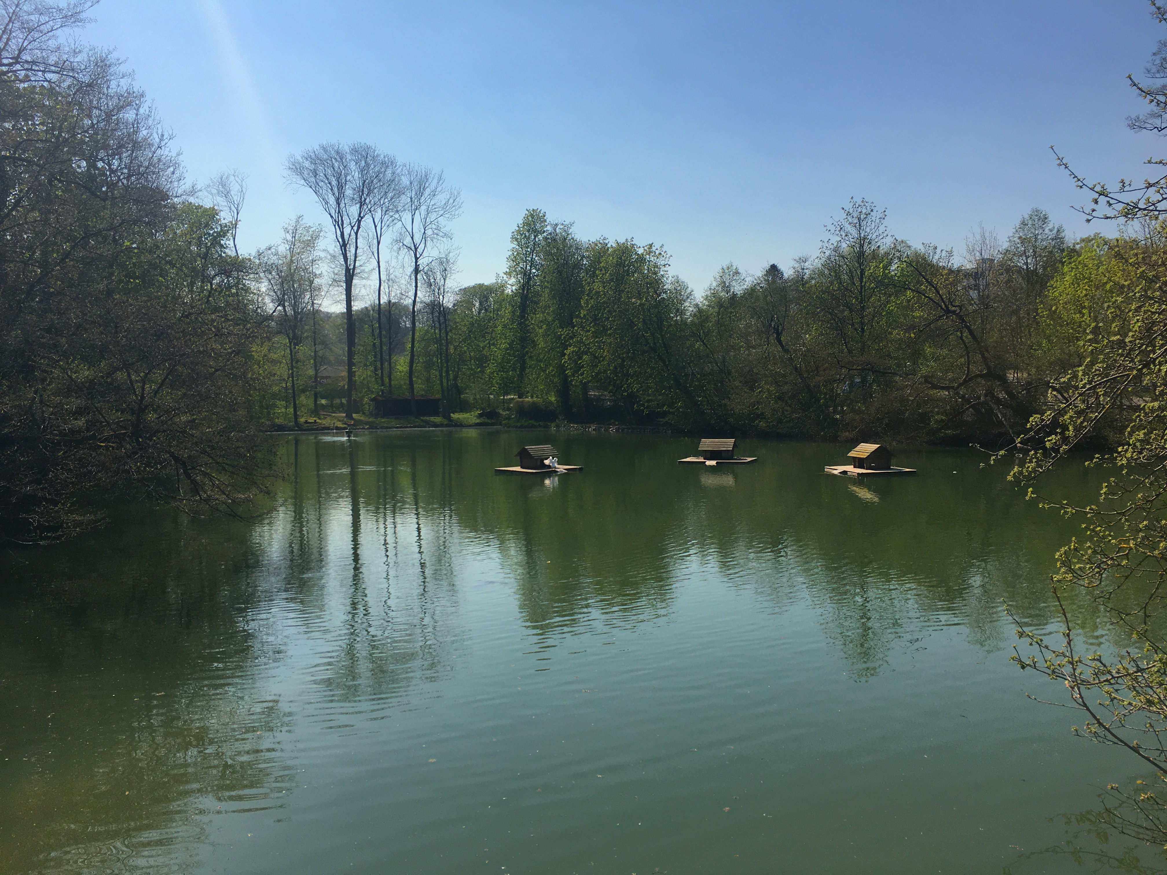 View of Allschwiler Weiher